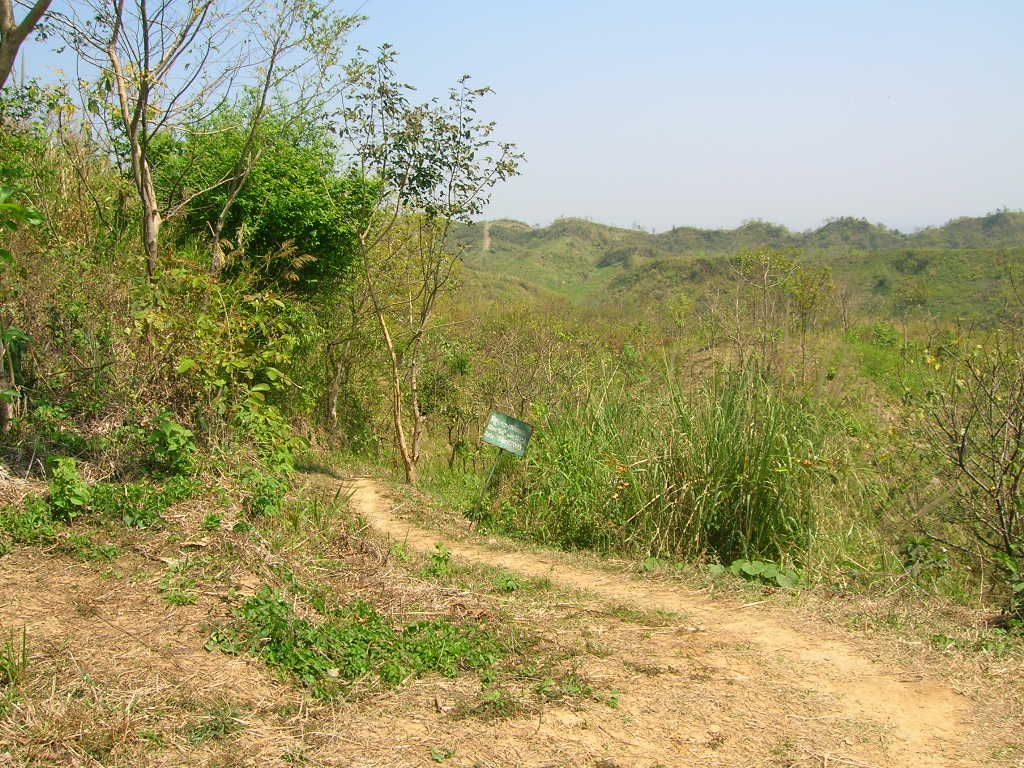 Picture of Sitakunda Eco Park